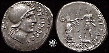 Gnaeus Pompeus (son of Gnaeus Pompeius Magnus 46-45 B.C. AR Denarius. Head of Roma r., in Corinthian helmet; before, M POBLICI LEG PRO, behind, P R CN MAGNVS IMP, female figure standing right with shield & spears, handing palm to soldier on prow. Syd 1035. Cr469/1a.